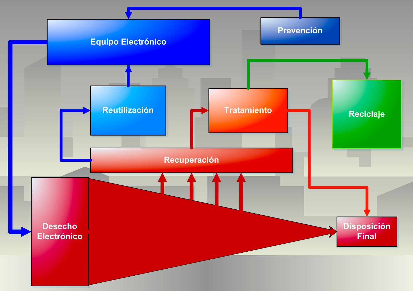 Spanish schema used to explain the ideal management of electronic waste.